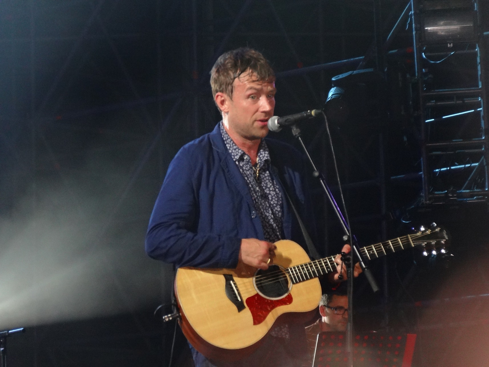 Blur 29.07.2013 in Rome